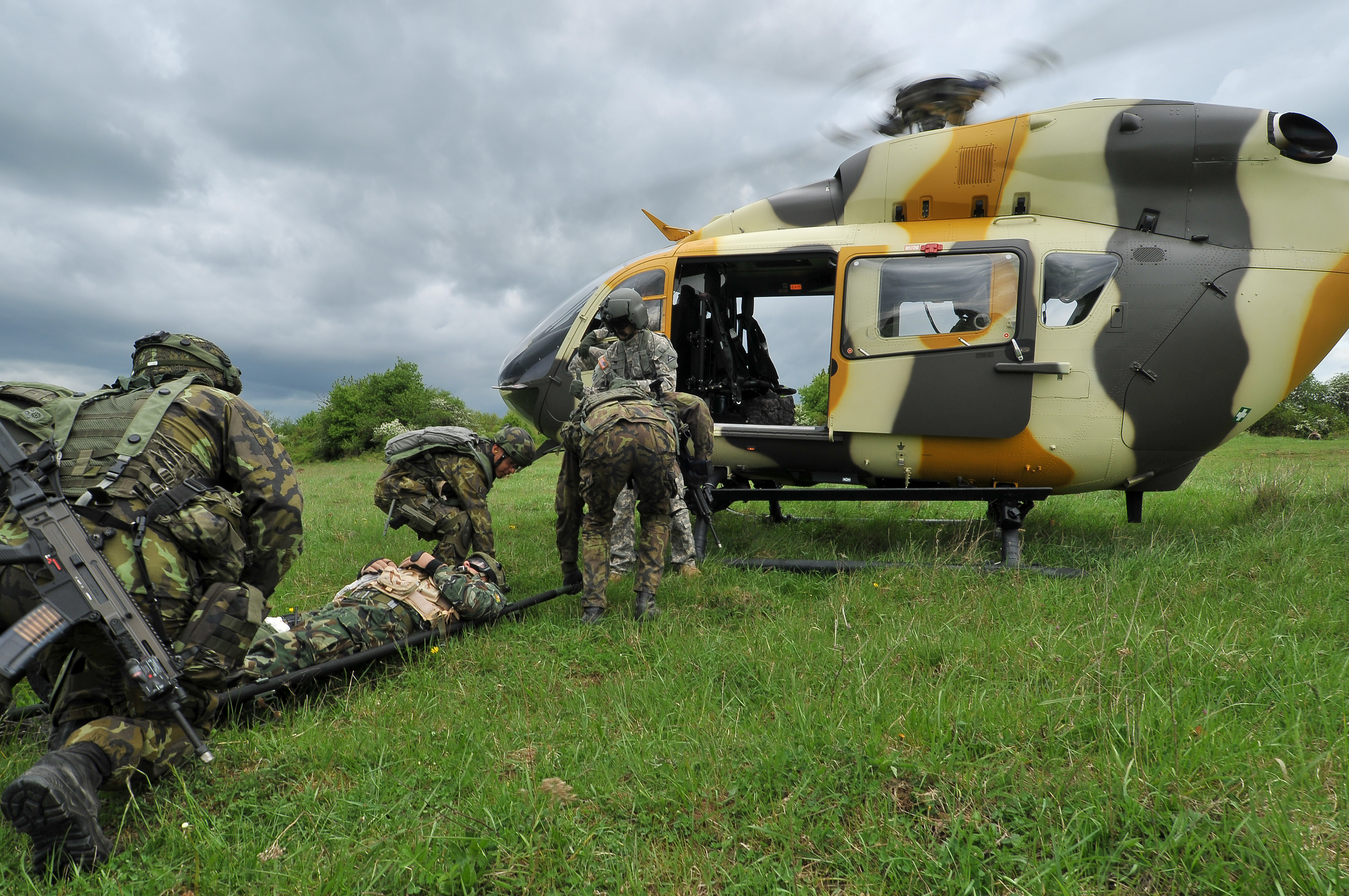 Czech soldiers prepare to lift a simulated casualty into a UH-72 Lakota medical evacuation helicopter during an operational mentor liaison team training exercise at the Joint Multinational Readiness Center in Hohenfels, Germany, May 9, 2012. Operational Mentor Liaison Team training is designed to prepare NATO forces for full-spectrum operations in Afghanistan. Police Operational Mentor Liaison Team training prepares civilian police officers to train members of the Afghan National Police. (U.S. Army photo by Sgt. Tristan Bolden)